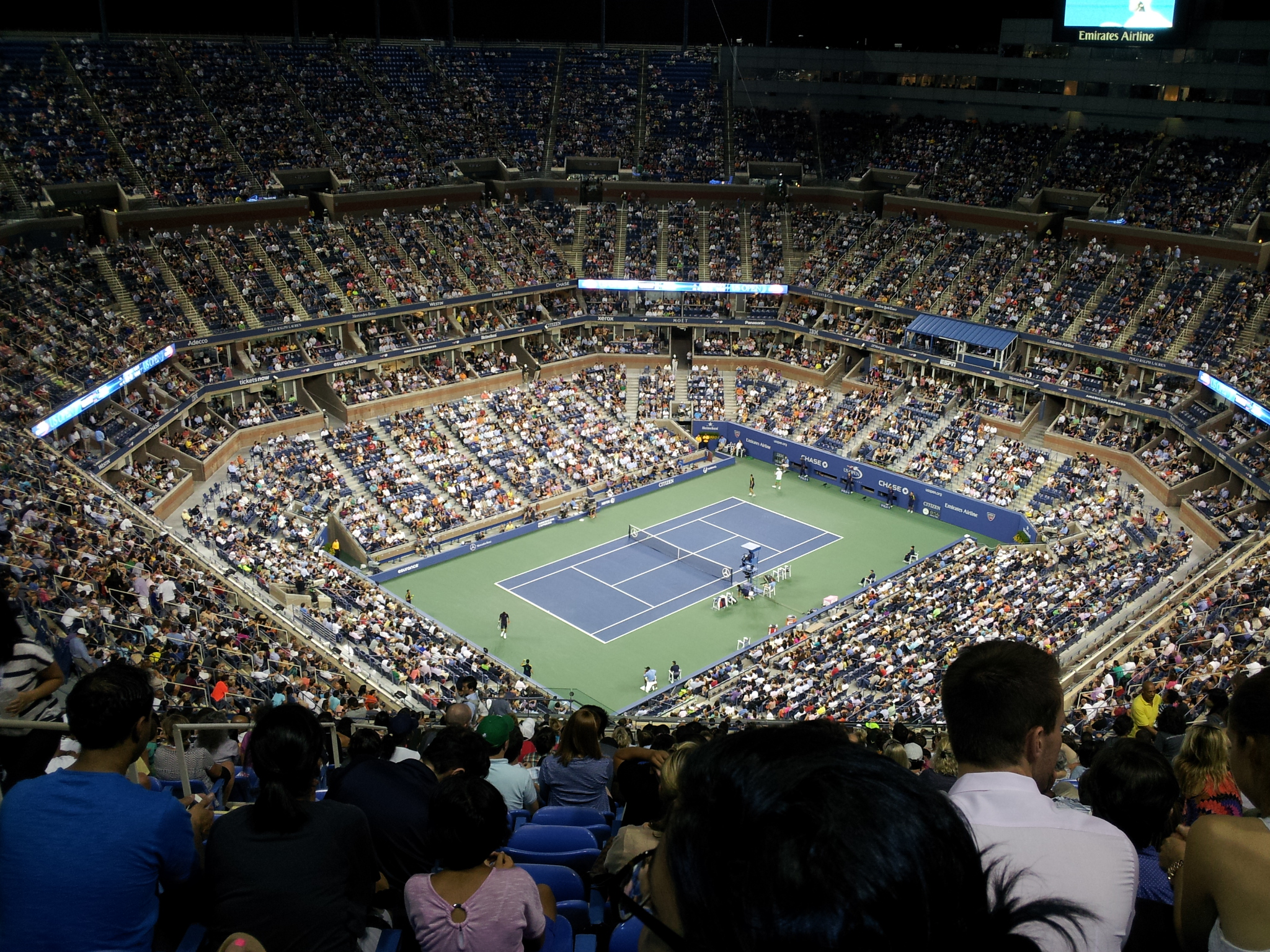 2012 US Open Novak Đ vs Paolo Lorenzi